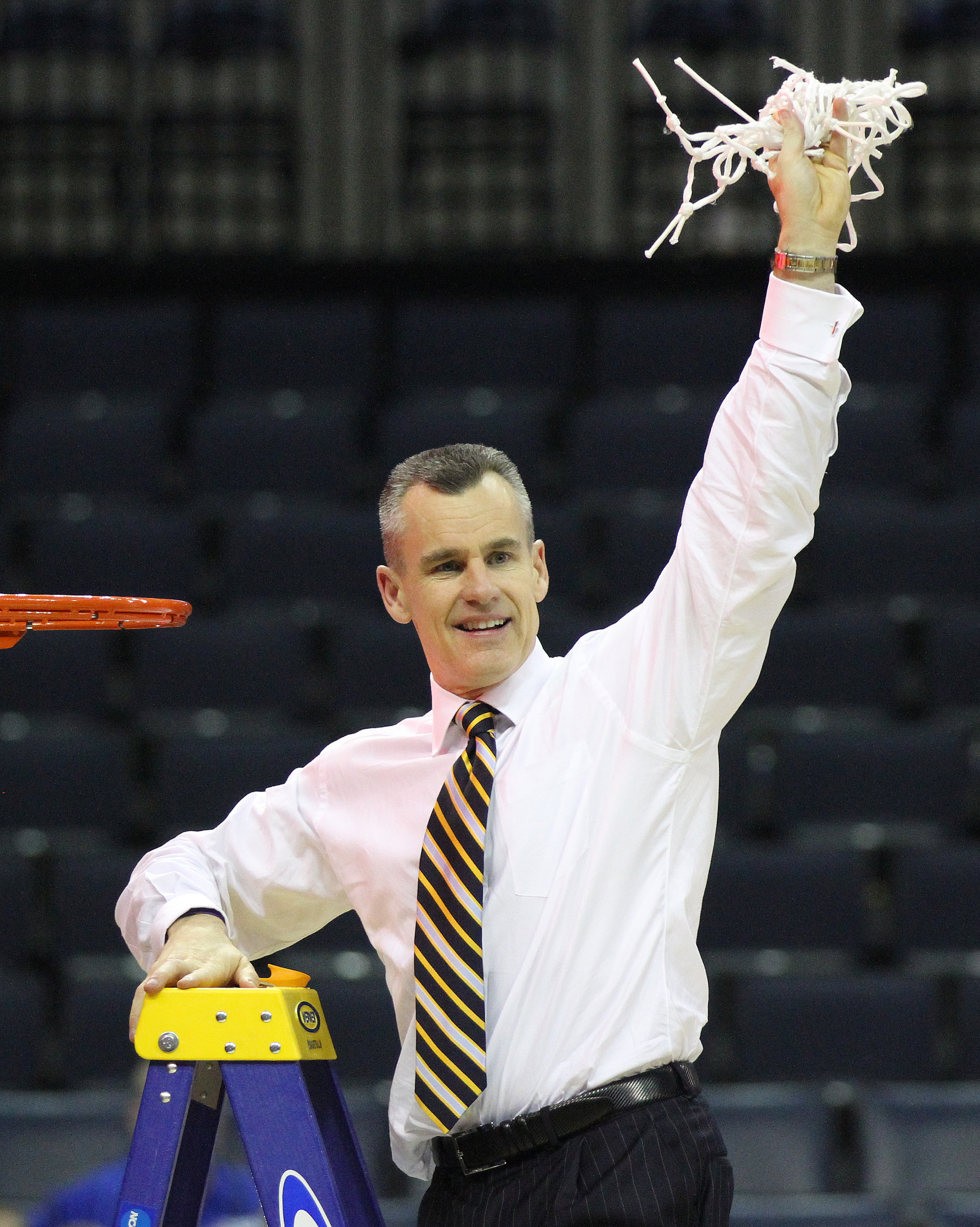 Billy Donovan Cuting Final Four Net Memphis